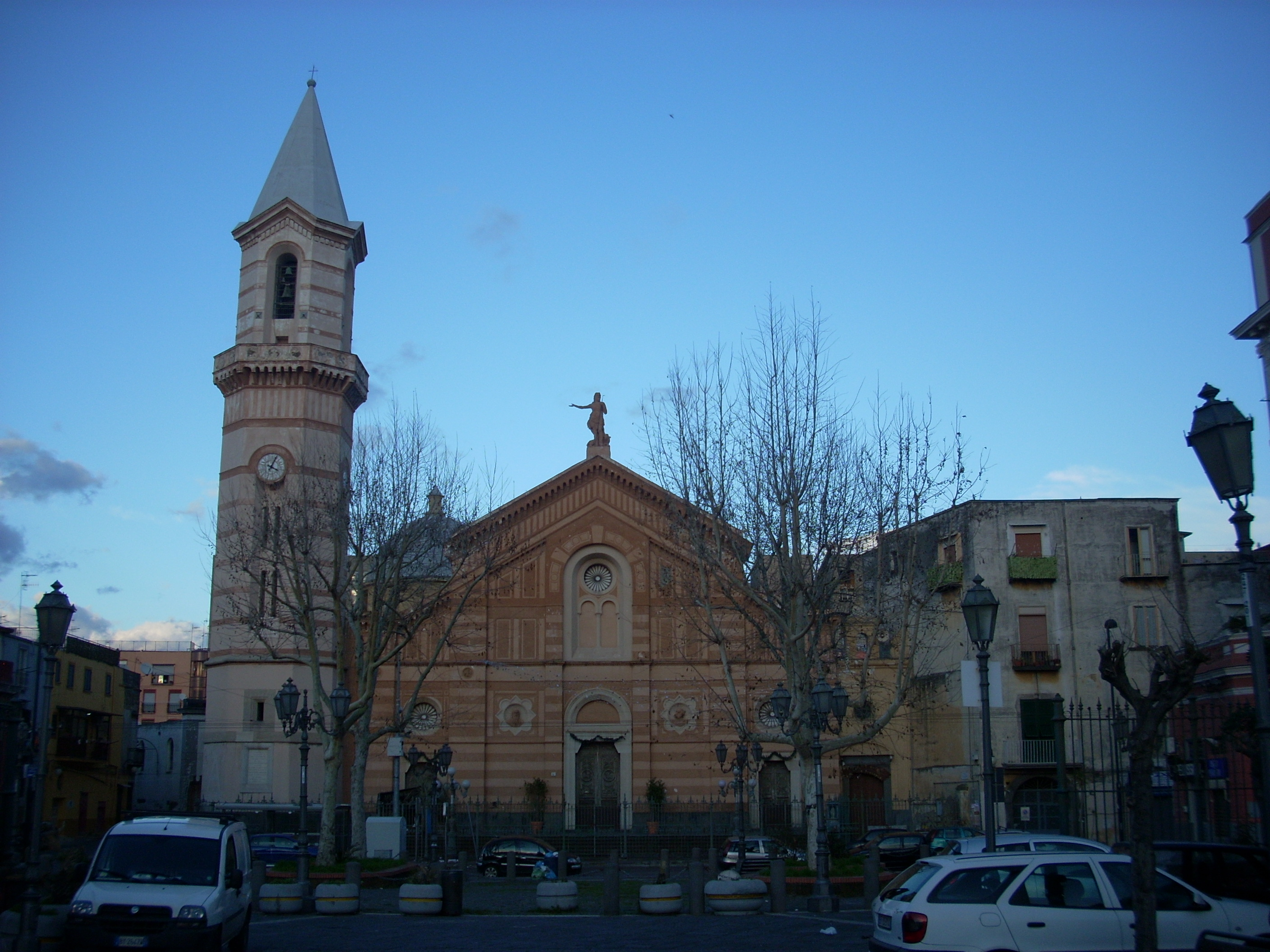 Chiesa a San Giovanni a Teduccio